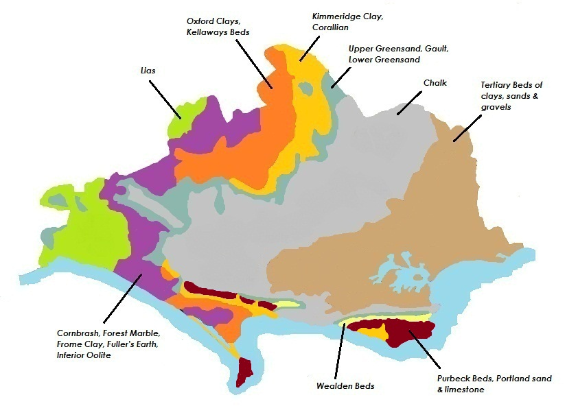 Simplified geology map of the county of Dorset, England.